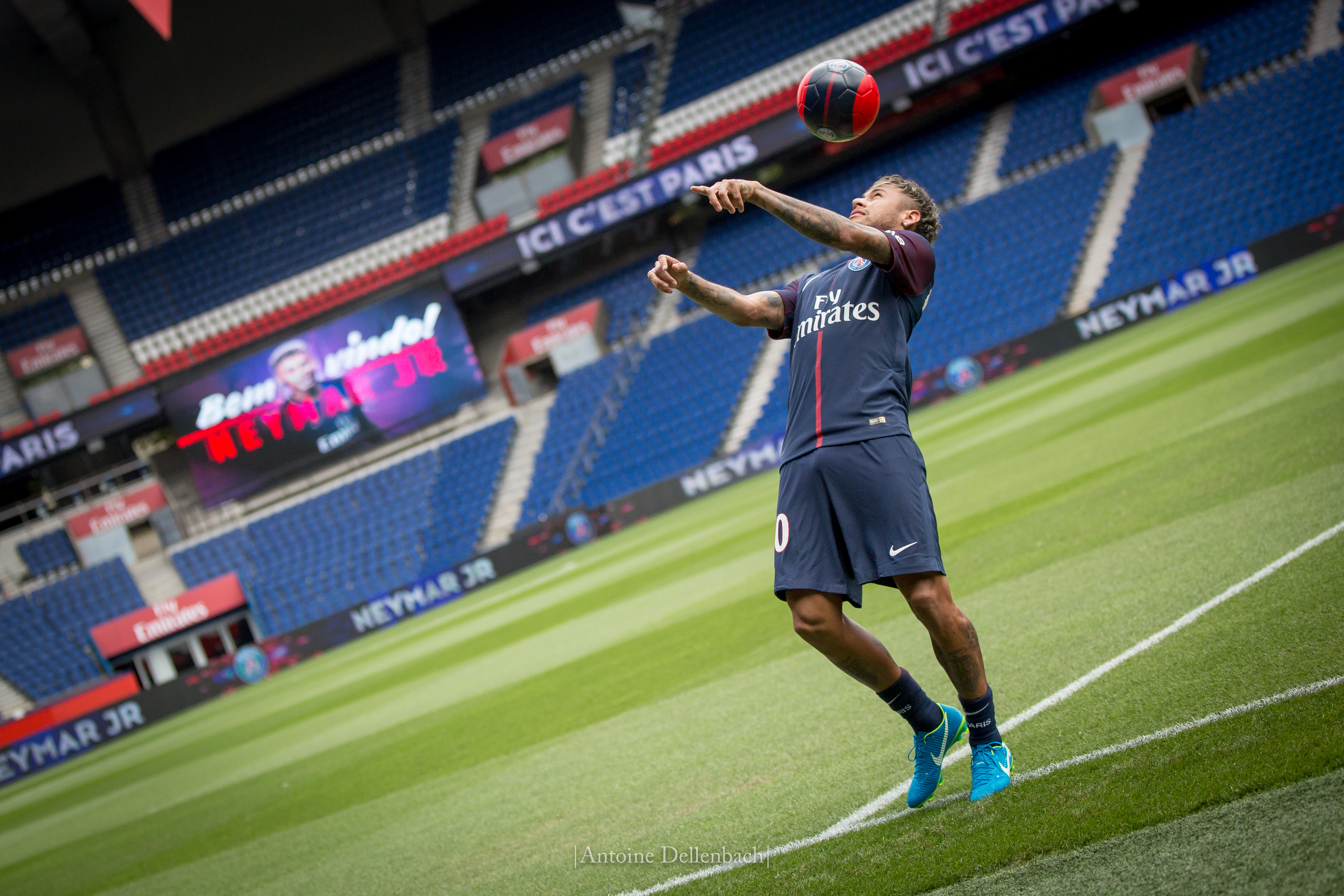 Neymar Jr official presentation for Paris Saint-Germain, 4 August 2017.